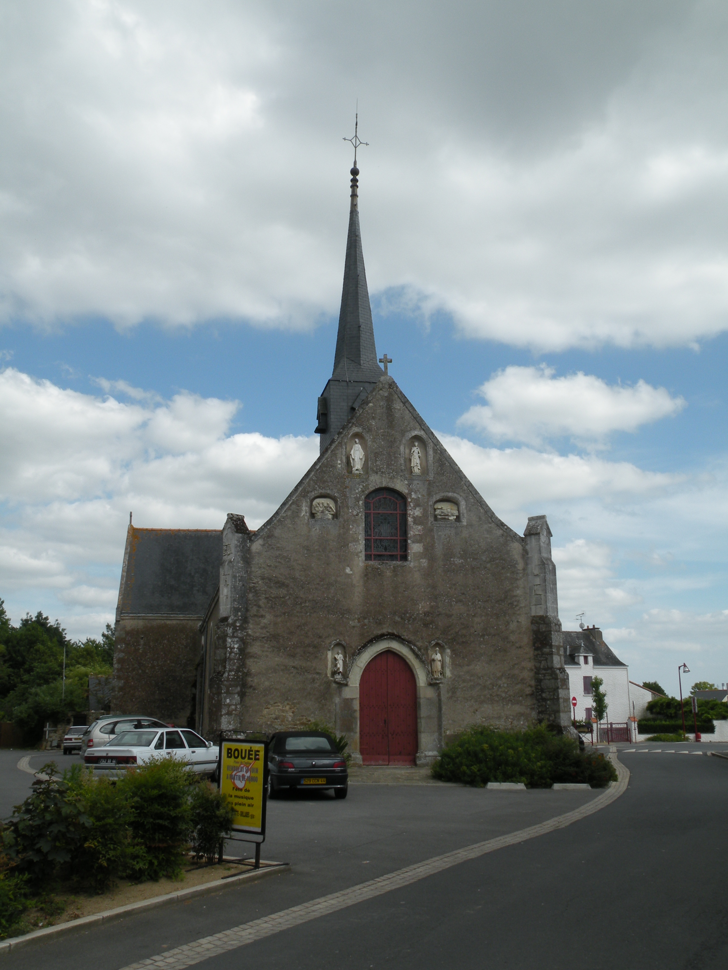 Church of Bouée